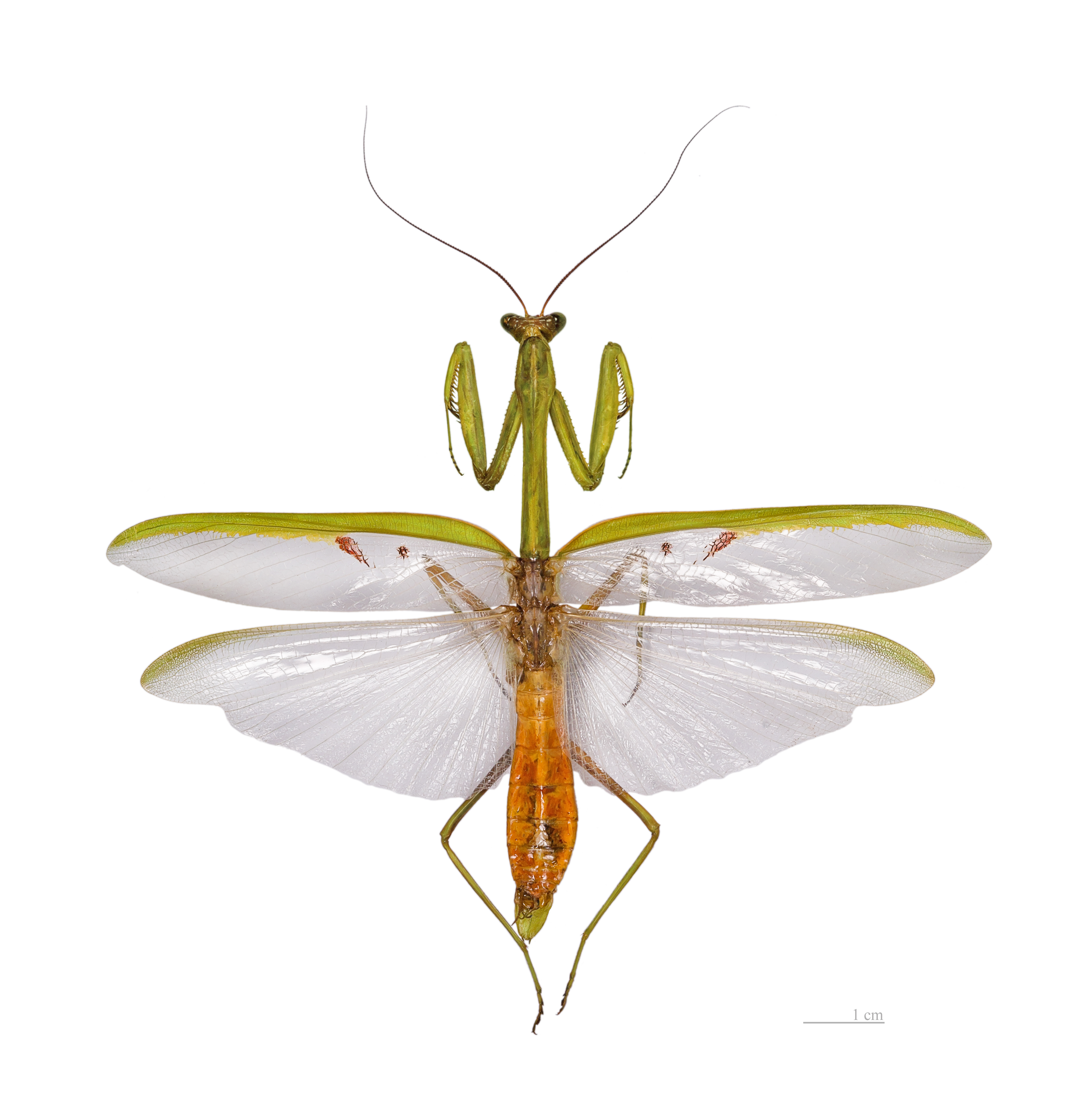 ♂ Flying position Locality : Kouroru, Summit "Monkey Mountain", French Guiana.